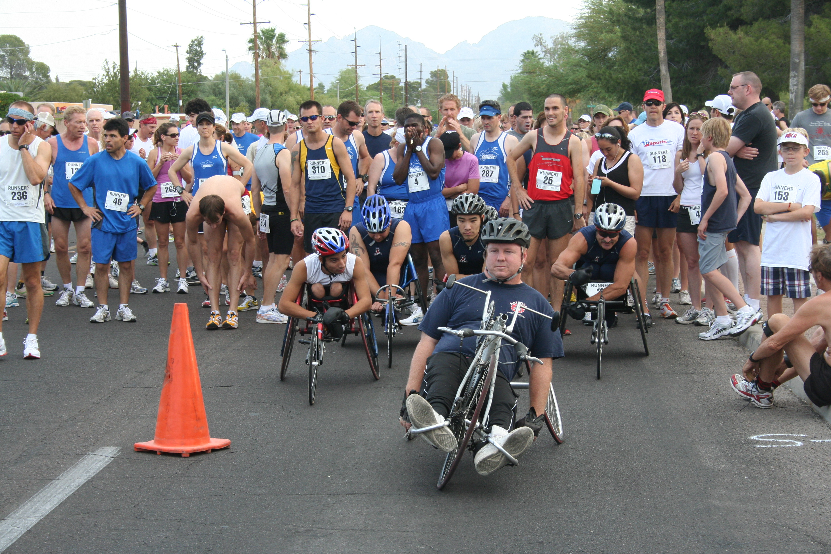 5k Race at Reid Park, in Tucson Arizona